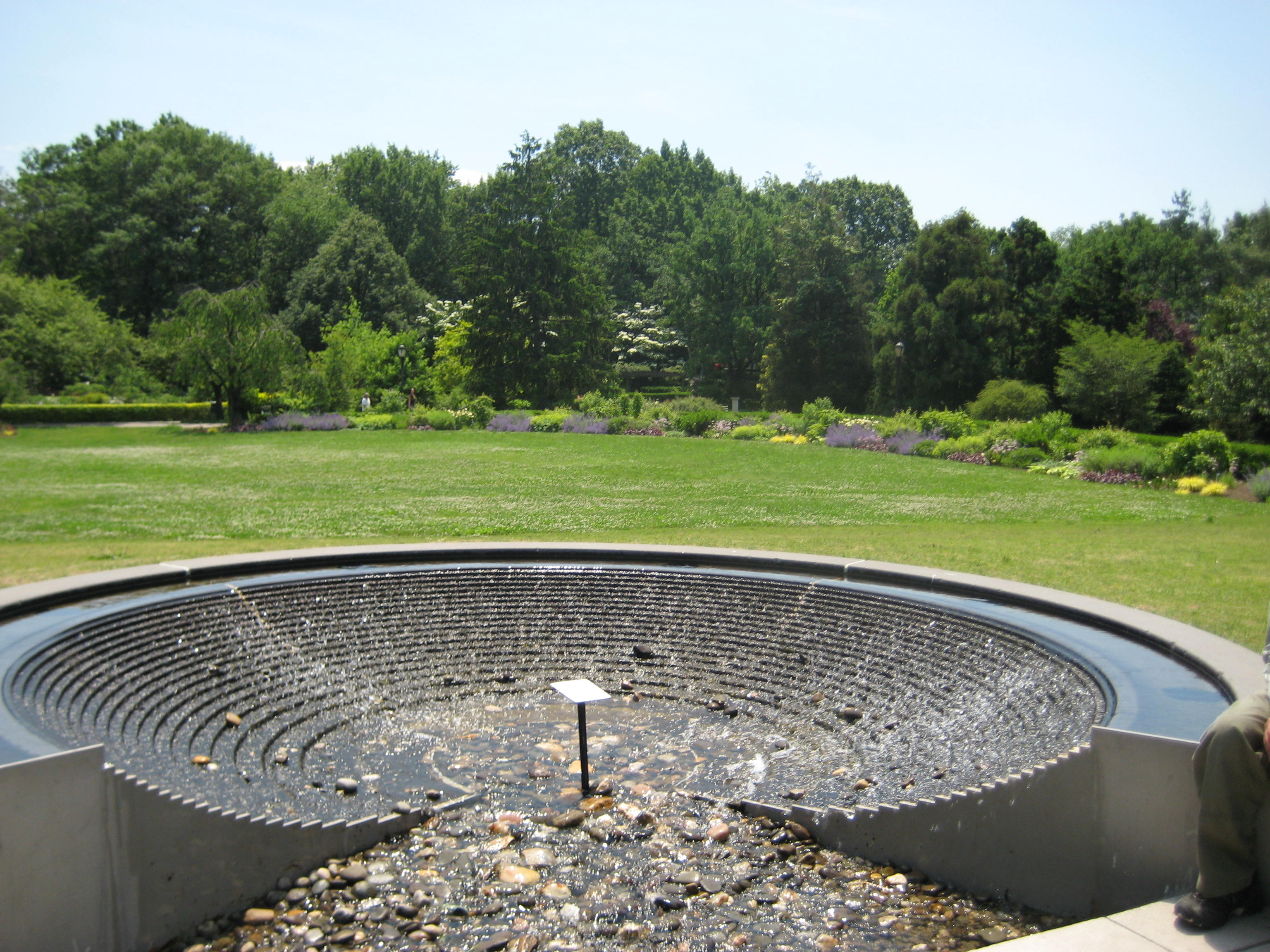 Queens Botanical Garden, Flushing